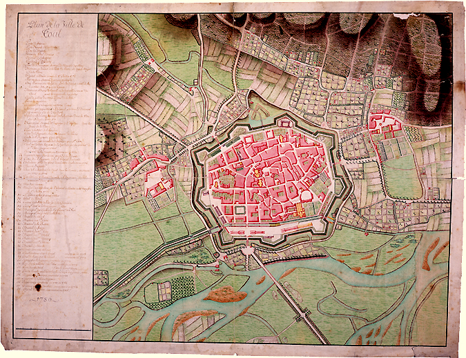 Map of Toul and Fortifications in 1786. Toul, Lorraine, France.